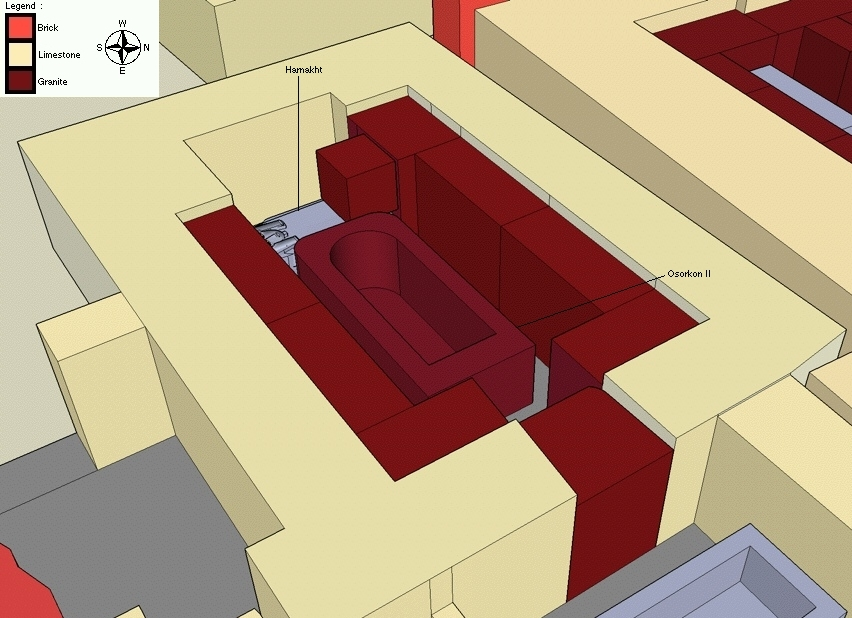 Restored view of Osorkon II's tomb and that of his son, Harnakht - Tanis Royal Necropolis